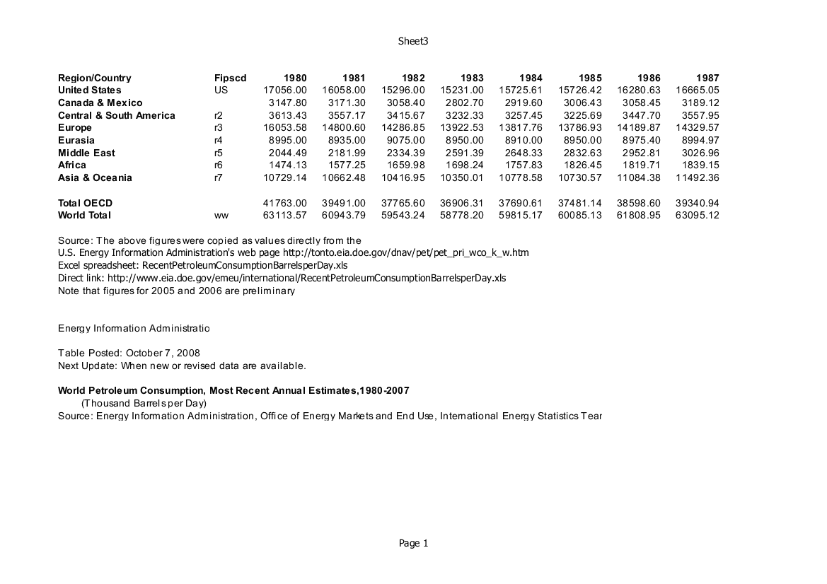 Oil consumption in daily barrels per region from 1980 to 2006. This contains raw figures copied from the region total sections of U.S. Energy Information Administration's file RecentPetroleumConsumptionBarrelsperDay.xls, with Canada and Mexico created as a new region. These figures were used to create the charts Image:Oil consumption per day by region from 1980 to 2006 no labels.svg and Image:Oil consumption per day by region from 1980 to 2006.svg. Snapshots of those two charts are included here. Vertical extents indicate thousands of barrels of oil consumed per day, and the horizontal scale shows years from 1980 to 2006. From bottom to top the regions are: United States in red, Canada and Mexico in orange, Central and South America in brown, Europe in blue, Eurasia in cream, Middle East in pink, Africa in grey, and Asia and Oceania in yellow.